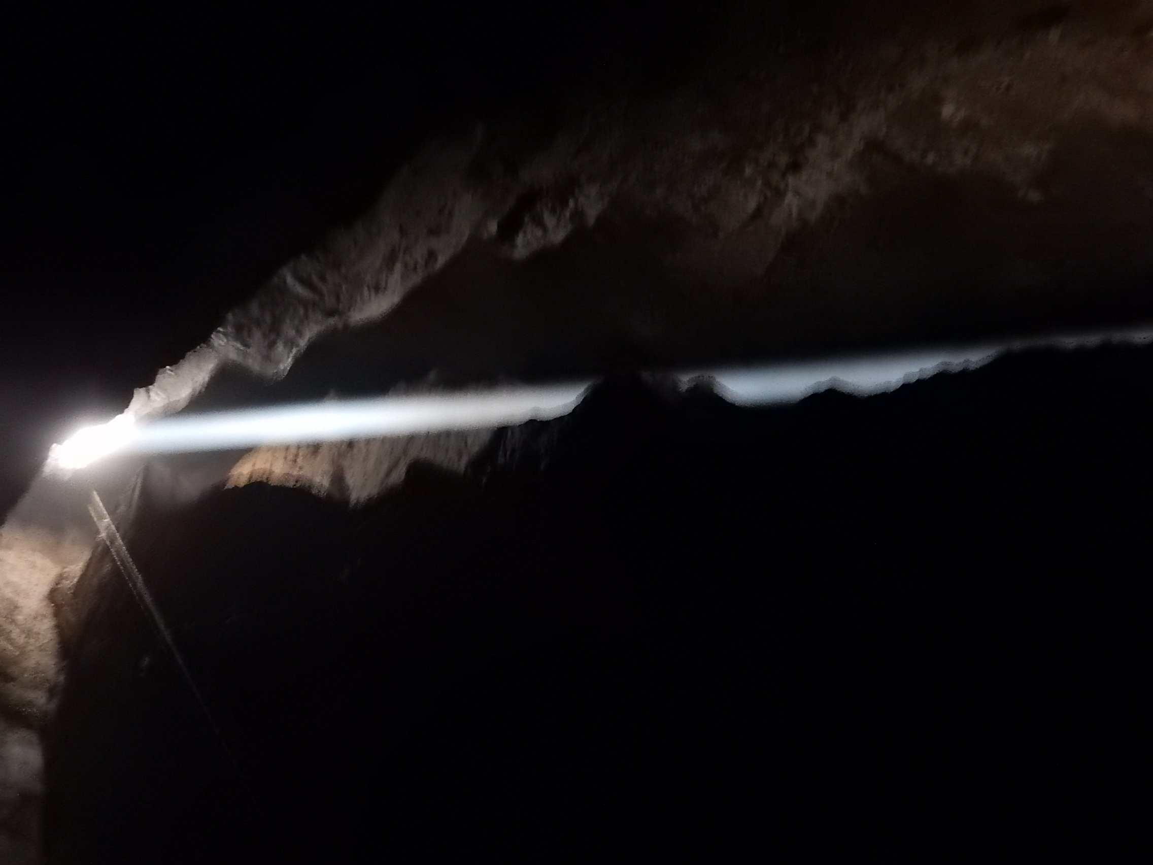 Beam of sun light inside the cavity of Rocca ill'Abissu on the ridge of Mount Baratta at Fondachelli Fantina, Sicily